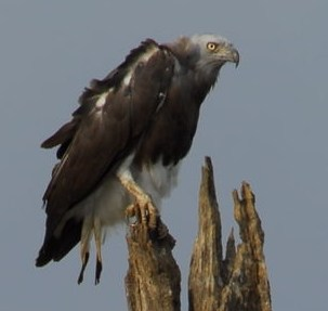 Grey-Headed Fish-Eagle